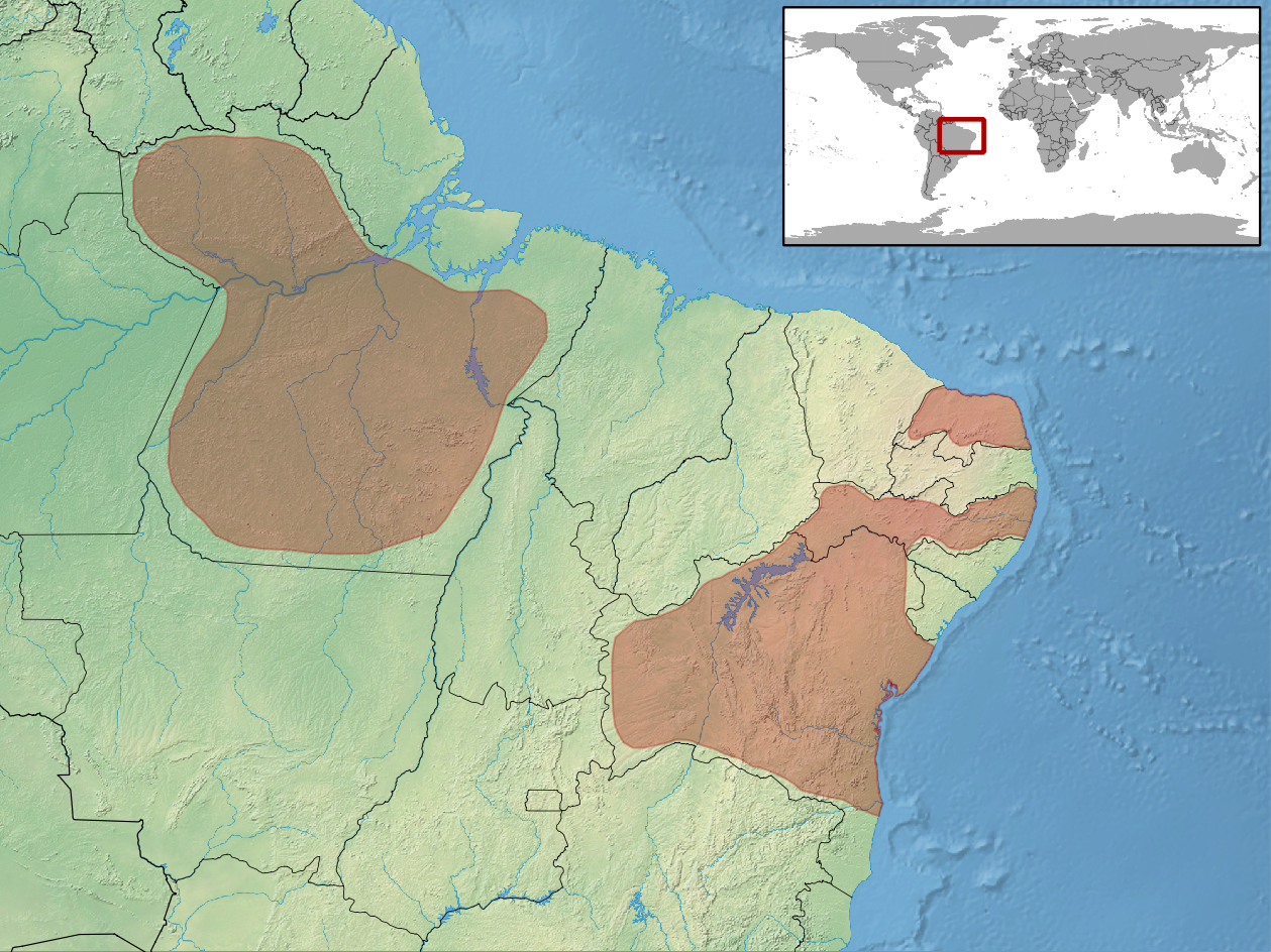 geographic distribution of Amphisbaena polystegum syn Leposternon polystegum (Native: Brazil (Bahia, Pará, Pernambuco, Rio Grande do Norte))